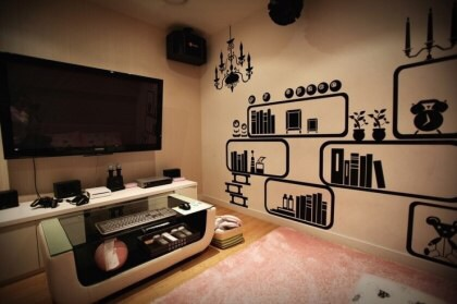 Multiroom, also known as "multi bang" in Korea, is a place that people go to do various activities such as, singing, watching movies, playing nintendo or wii games, and etc. It is call multiroom because you can rent a small room with many electronic devices by the hour. The price of a multiroom is usually between 10,000-15,000 won per hour. The room usually comes with unlimited snack and beverage refills. The snacks include pretzels, toast, ice cream, cereal and the beverages include coffee, soda, tea, and etc. Customers are allowed to bring the snacks into their cozy, small rooms and enjoy while singing or gaming. It is a trend in Korea for teenagers to go to multibangs or multirooms. This is because of the reasonable prices and it comes with many activities. Compared to going to noraebang, theaters or game rooms individually, multiroom is much more cheaper and reasonable. So for broke teenagers, it is a very attractive place to hang out. Multirooms are also an attractive place for adults to spend their time. However, there are some concerns related to Multiroom That is because some teenagers or immature adults do sexual harassments in this place. Or some even do bullying in Multiroom, it is because this place is cheap and concealed, so others cannot see what they are doing in the individual rooms.